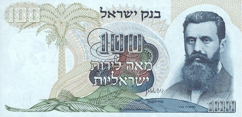 This file was derived from: Israel 100Lirot 1968 Obverse & Reverse.jpg